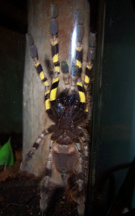 juvenile female p. regalis ventral shot